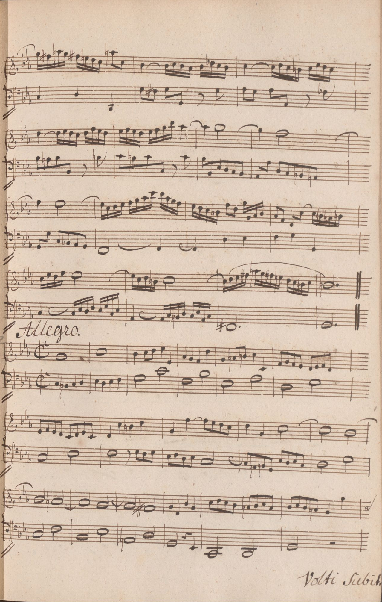 Primo part of the end of the slow movement and the beginning of third movement of BWV 526 arranged for 2 harpsichords, from the collection of Fanny von Arnstein. Hand copy acquired in Berlin.